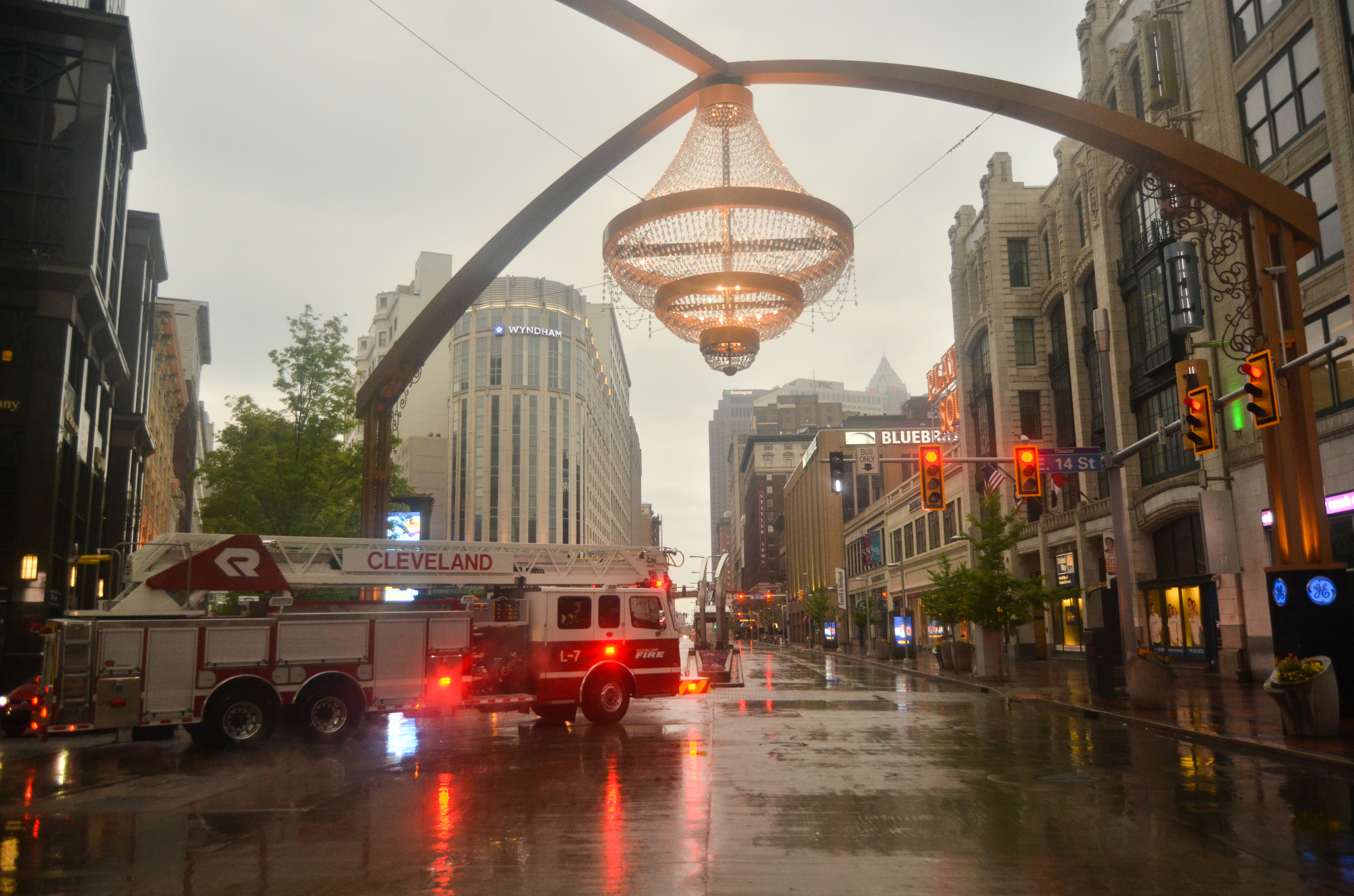 Playhouse Square Chandelier